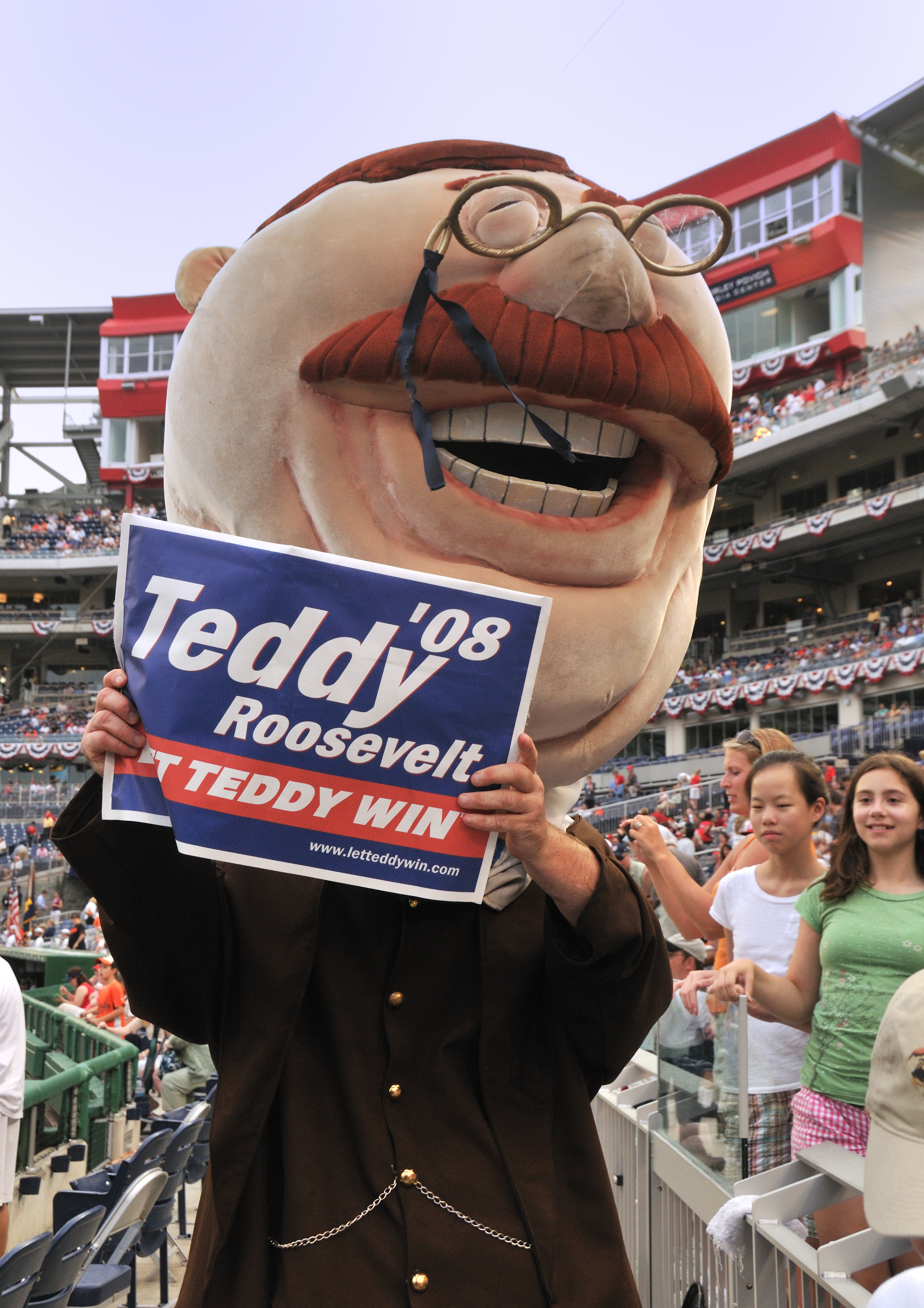 Washington Nationals racing president Teddy Roosevelt, who has never won the presidents race, holding up a Teddy '08 rally sign at Nationals Park.